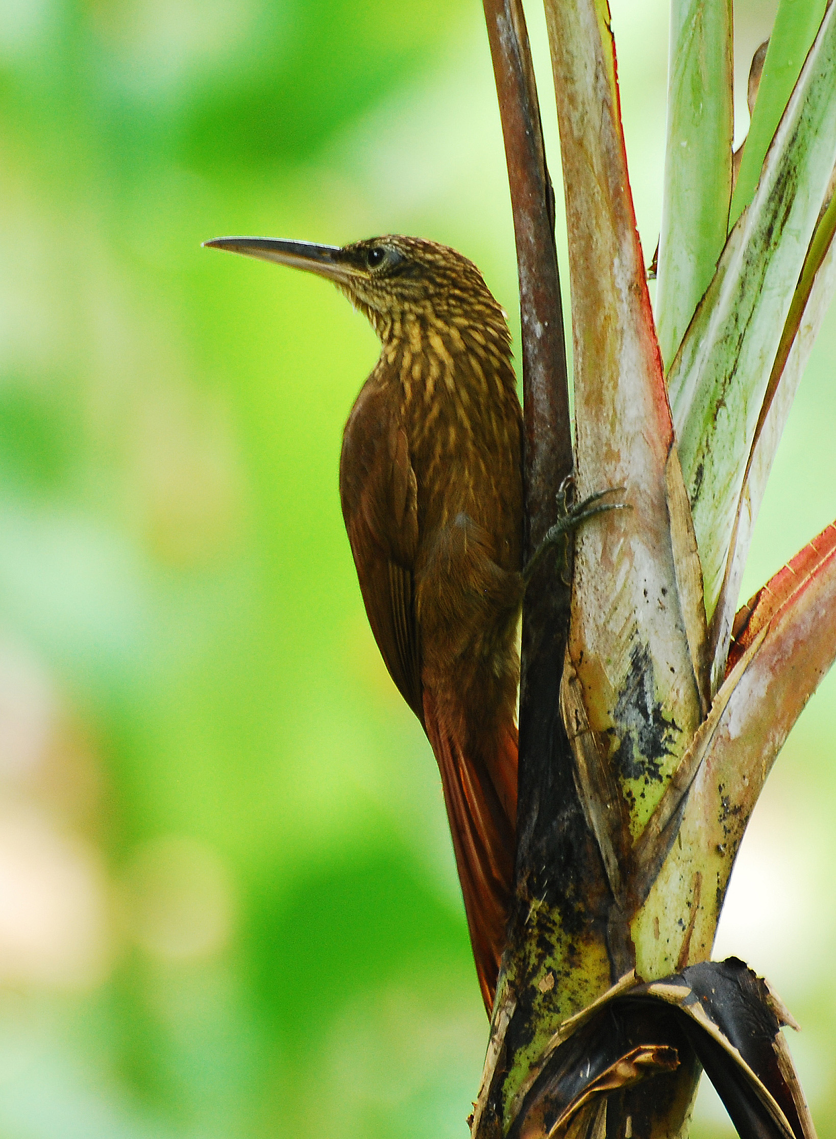 Cocoa Woodcreeper at Selva Verde Lodge, Costa Rica, 080225. Xiphorhynchus susurrans.